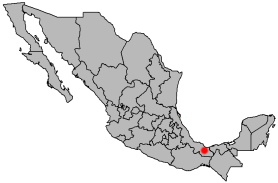 Locator map of Minatitlán, Veracruz, Mexico